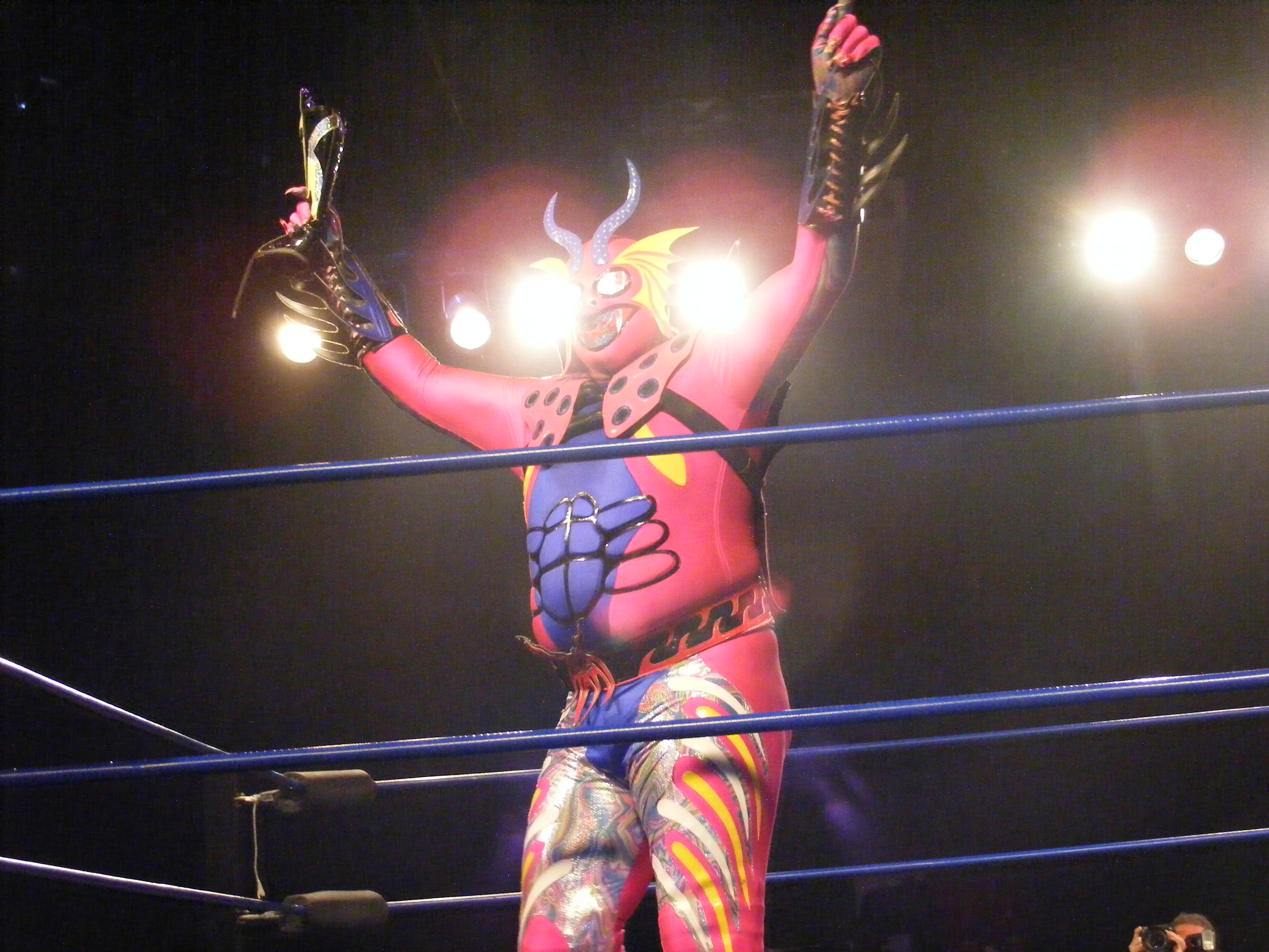 Mexican wrestler El Alebrije during an appearance for the Chikara wrestling promotion